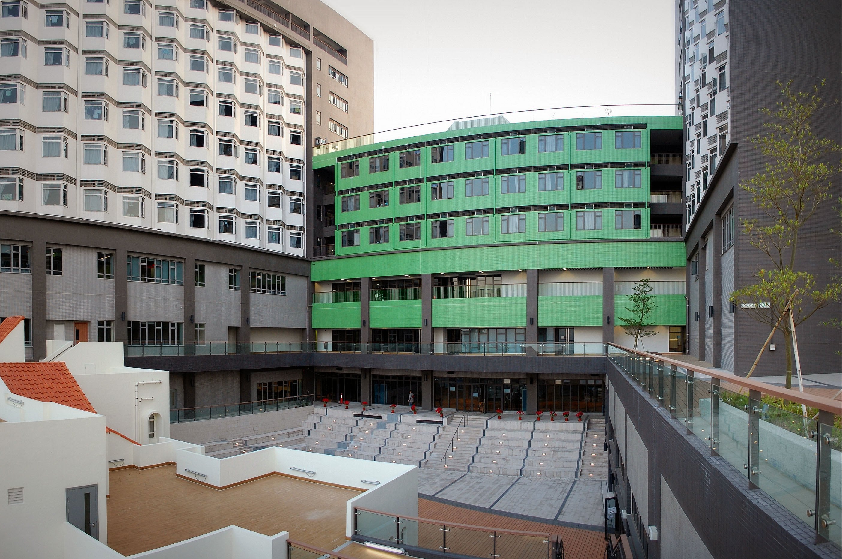 The interior courtyard of Wu Yee Sun College, Chinese University of Hong Kong. 中文（香港）: 香港中文大學伍宜孫書院